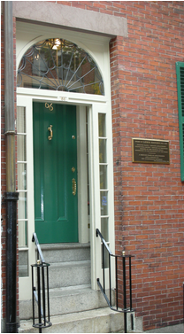 Lewis and Harriet Hayden House, former home of African American abolitionists in Boston, Massachusetts.